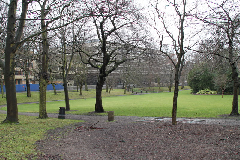 Gardens in George Square In summer packed with students - in winter, on a Sunday morning, deserted.